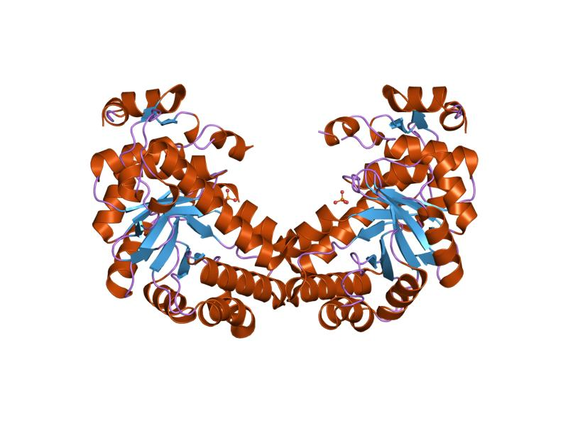 Cartoon representation of the molecular structure of protein registered with 1p0k code.